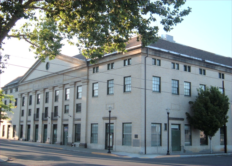 Civic Auditorium, 4th and Federal streets, The Dalles, Oregon. Taken July 2, 2006, by Fr. John-Mark Gilhousen (uploader, User:Jgilhousen) with a FujiFilm FinePix A330 digital camera (3.2 megapixel). Cropped, contrast enhanced, and resized in PaintShop Pro 7.